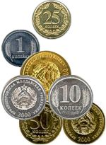 Transnistrian ruble coins.